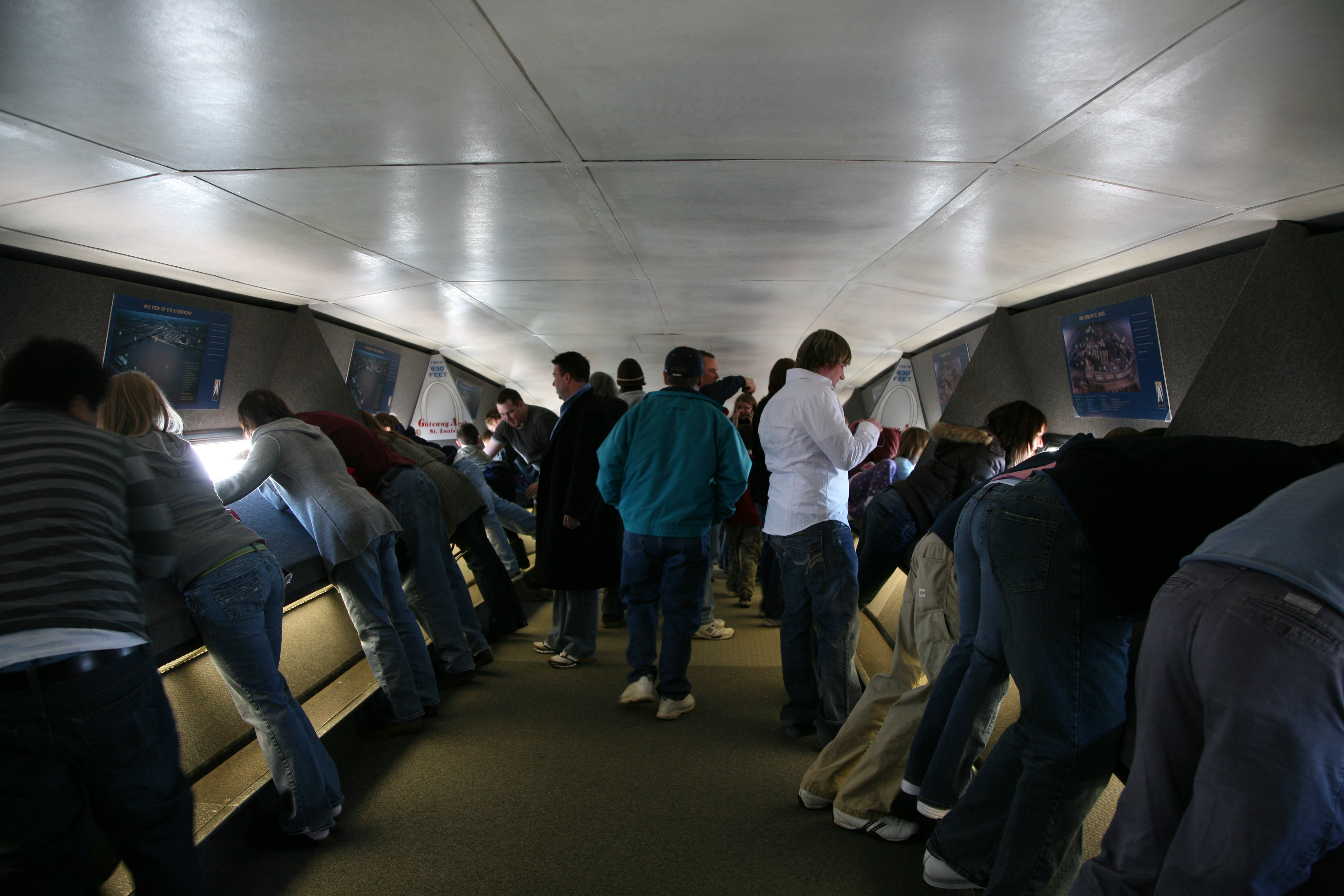 Observation deck on top of the Gateway Arch in St. Louis, MO